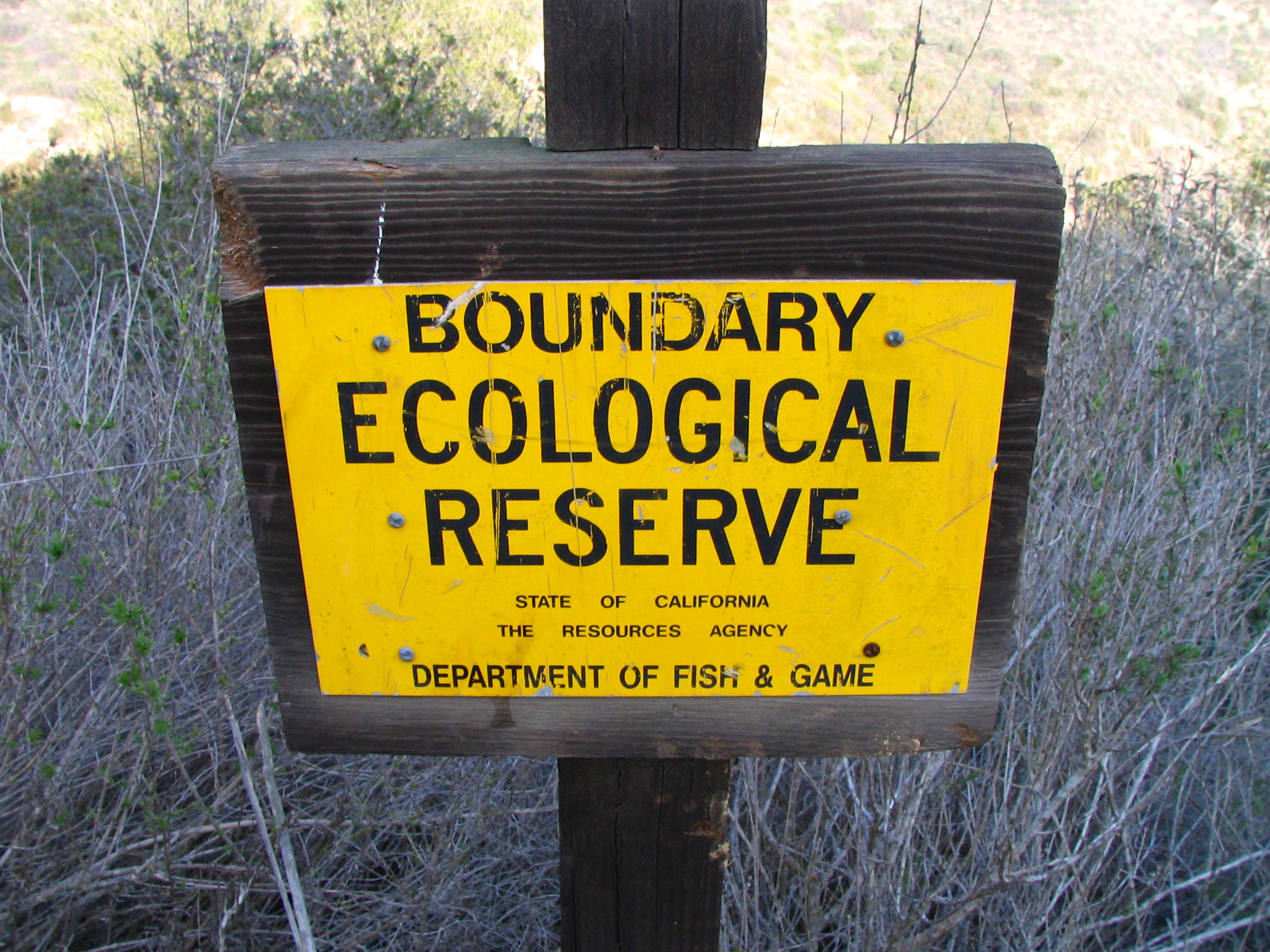 Sign delineating ecological reserve boundary on Willow Canyon Trail, Laguna Canyon, CA